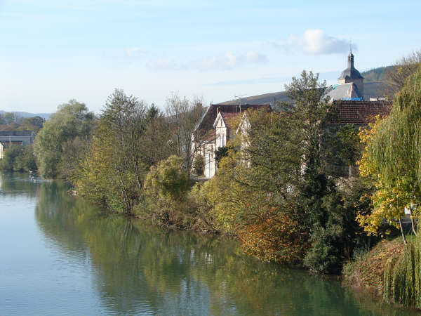 VILLAGE DE CUMIERES - MARNE - FRANCE